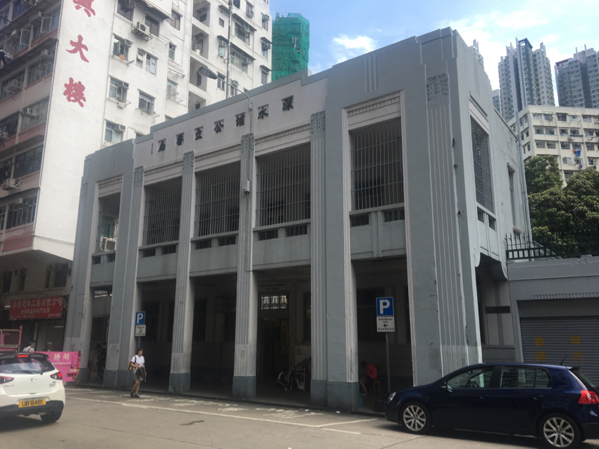 Sham Shui Po Public Dispensary. It is located at Yee Kuk Street in Kowloon.